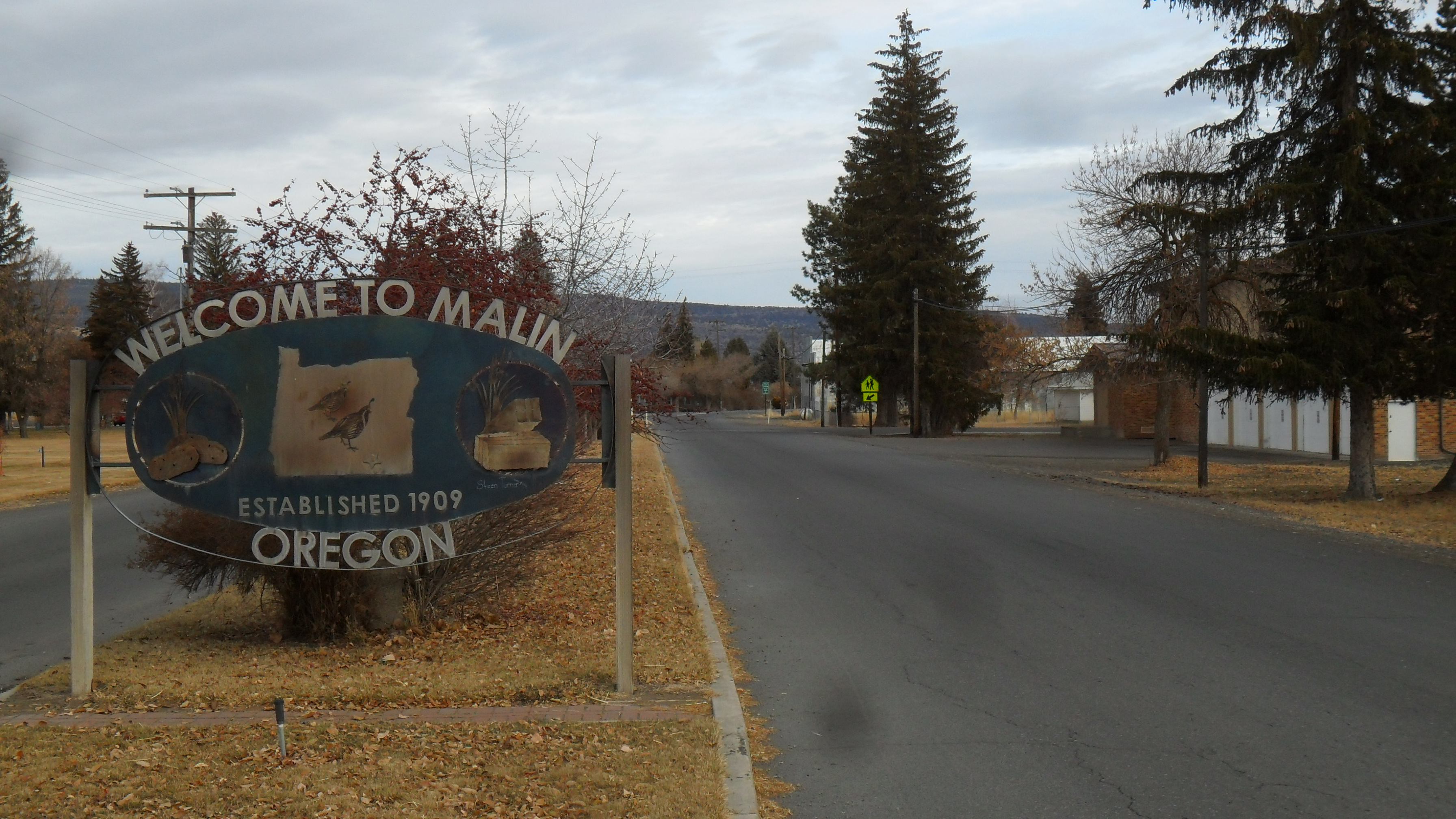 Malin City sign on the Klamath Falls-Malin Highway, West entrance of the town.